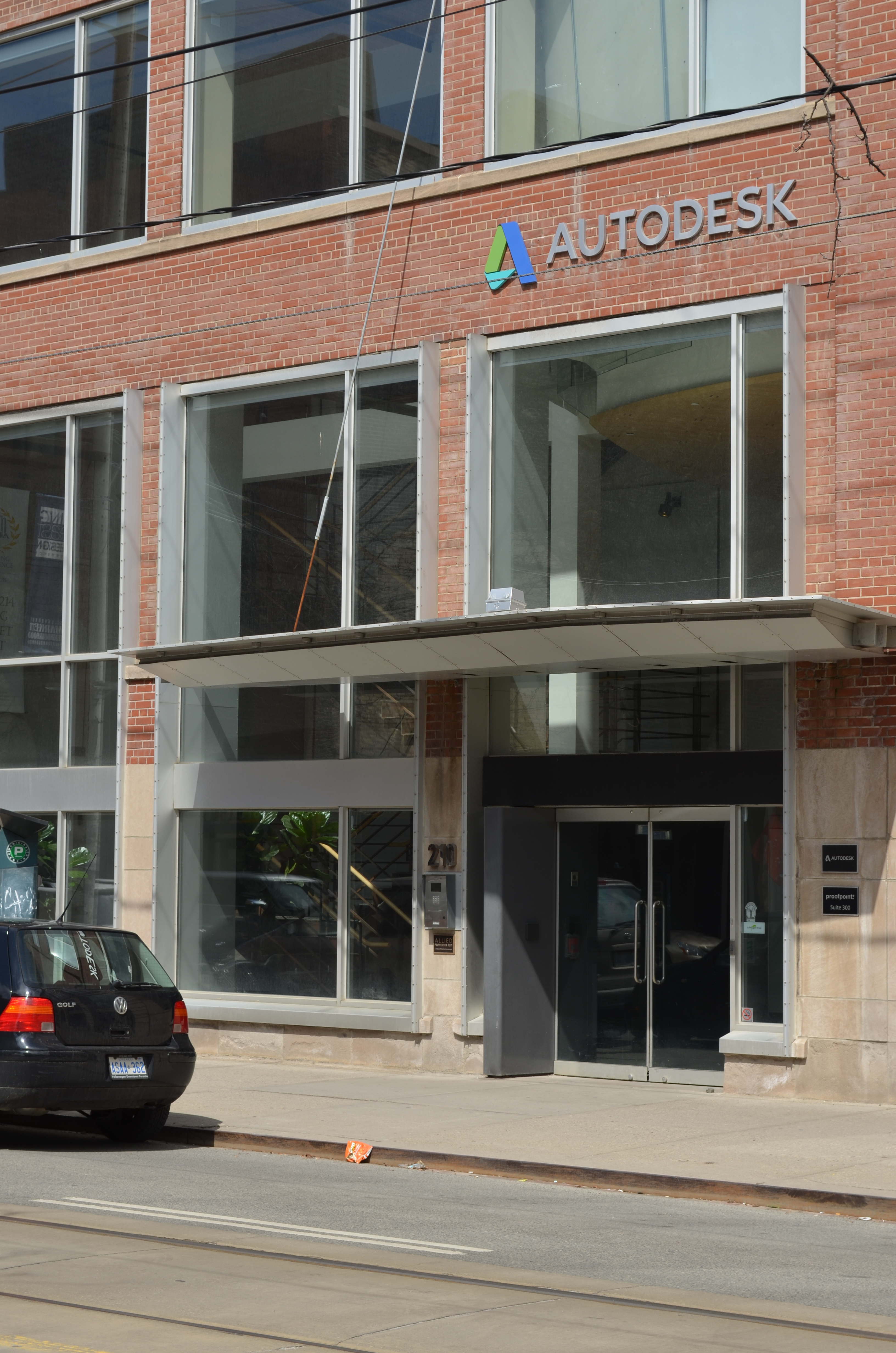 Autodesk Canada, 210 King St. East, Toronto